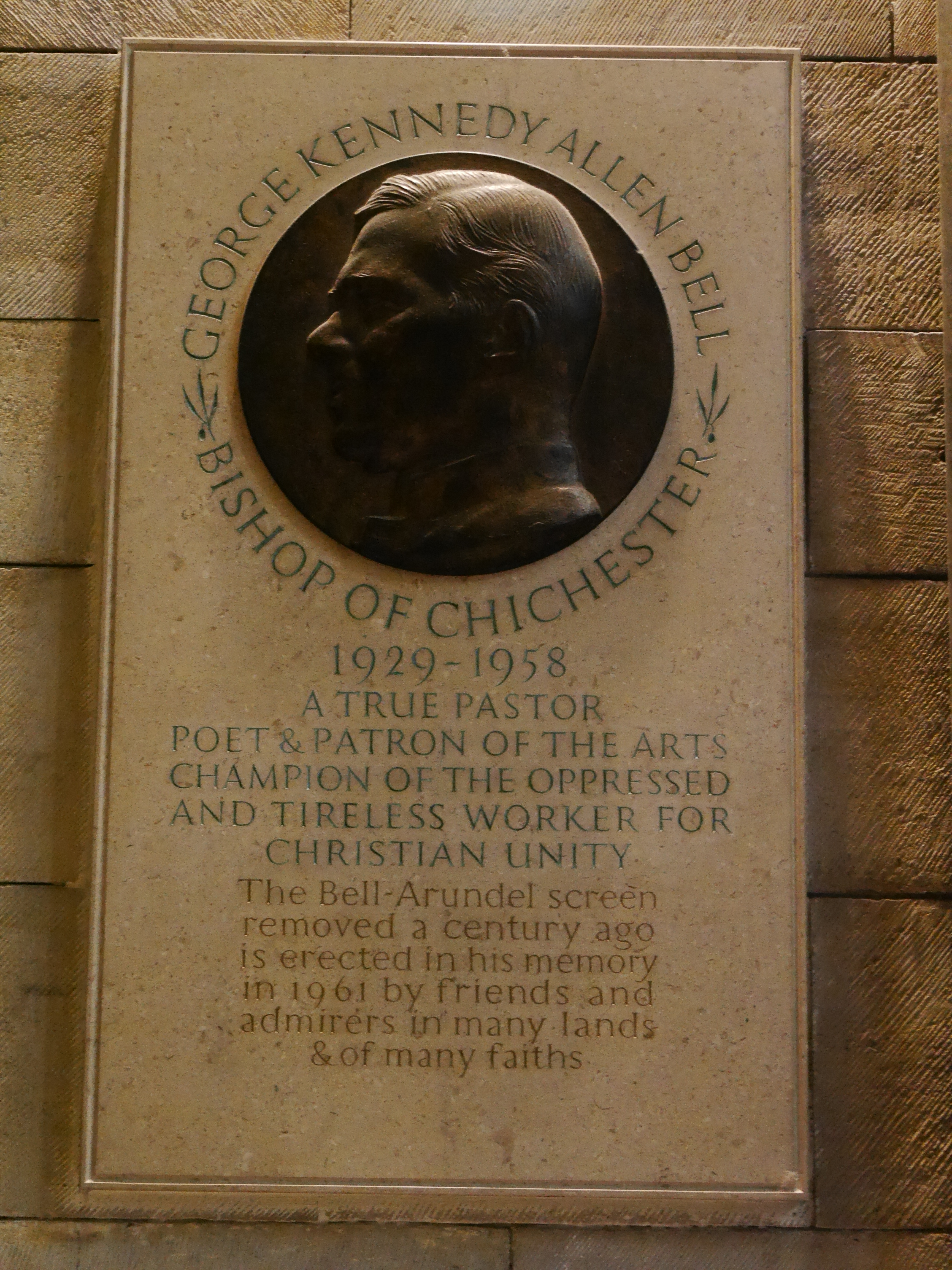 Chichester Cathedral, July 2015